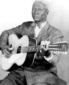 During the 1940s, folklorist Alan Lomax took this photograph of Huddie "Leadbelly" Ledbetter. His connection to Lomax helped him become one of the stars of the folk revival movement in America. Alan Lomax became the Archive of Folk Culture's first federally funded staff member in 1936 and served as "assistant in charge." He made collecting expeditions for the Library of Congress in the South, Midwest and New England; produced a seminal series of documentary folk music albums titled "Folk Music of the United States"; conducted interviews with musicians such as Jelly Roll Morton; and, over the years, introduced Washington audiences and radio listeners nationwide to an array of traditional artists.